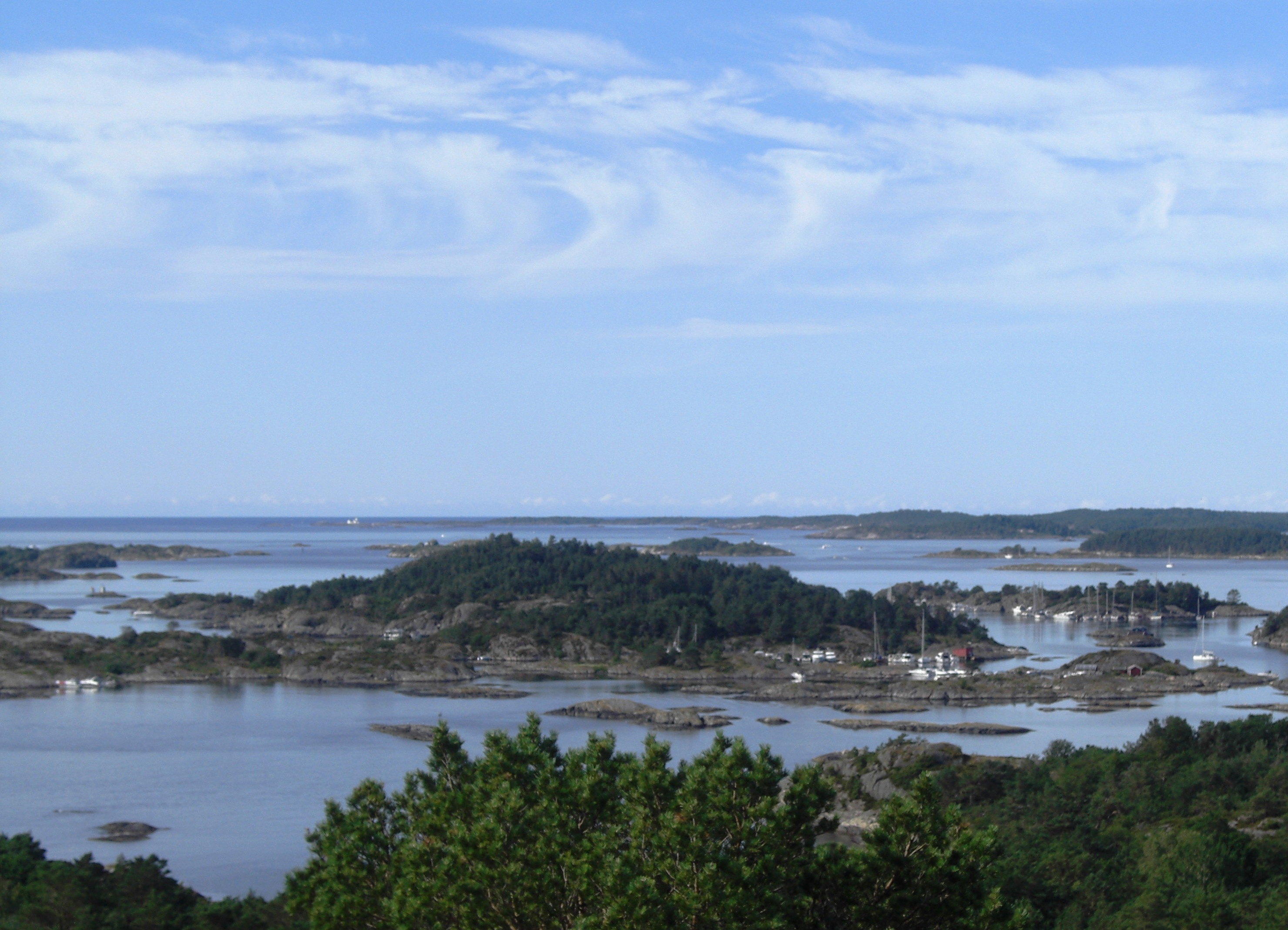 Maløyene